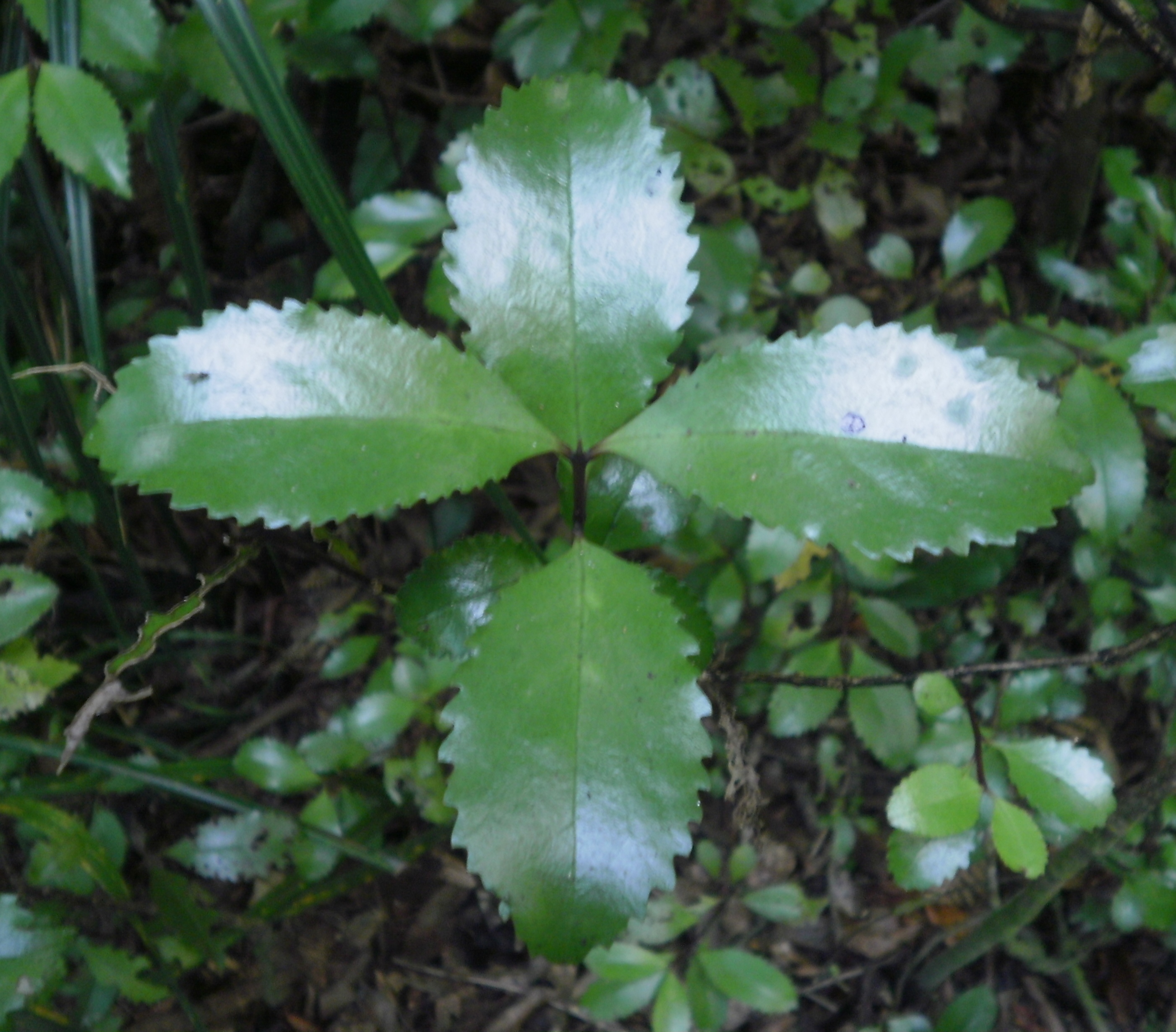 Pukatea Laurelia novae-zelandiae, juvenile leaves of the tree. Taken at Nga Manu Wildlife Reserve, Waikanae, New Zealand.